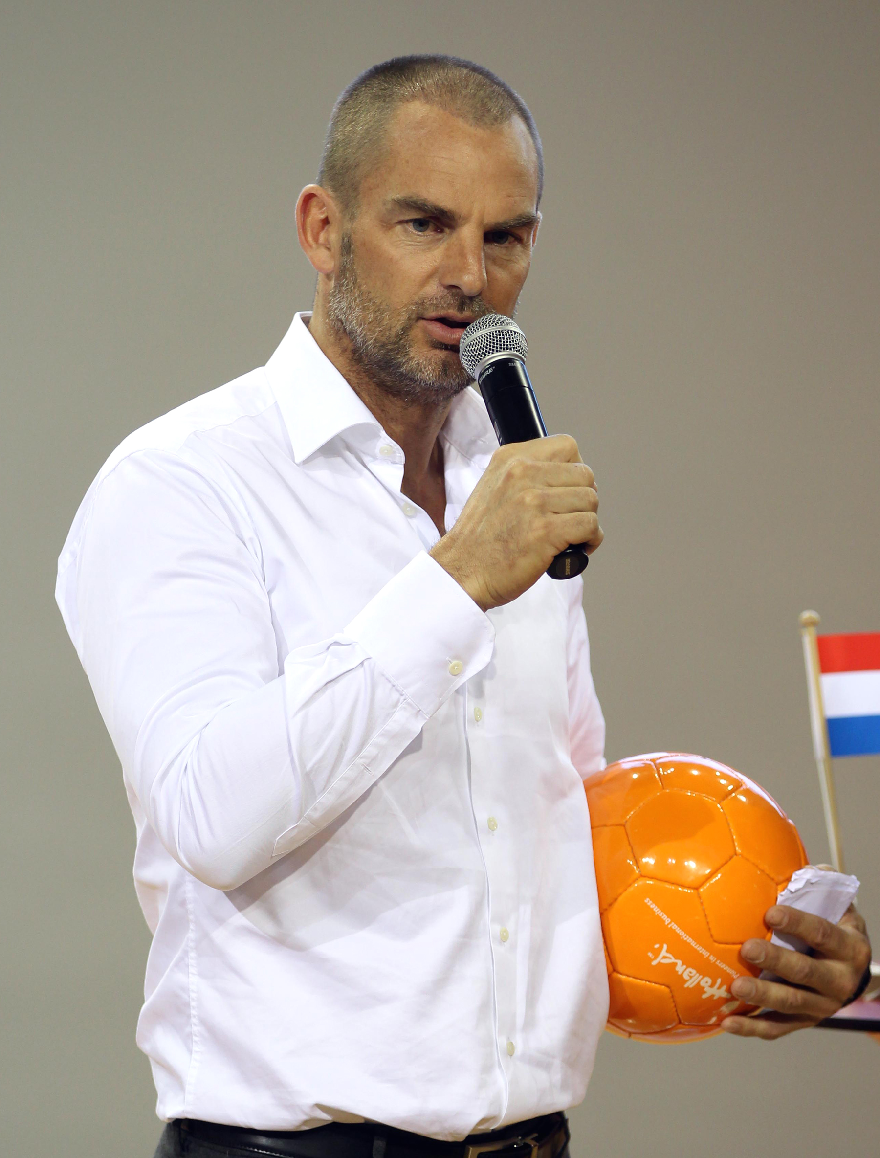 Ajax Under-19 team's Dutch coach Ronald de Boer.